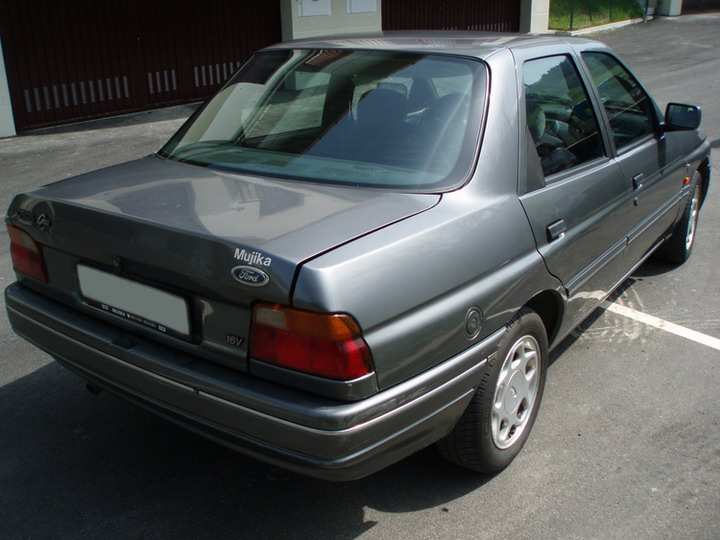 1991 Ford Orion, rear